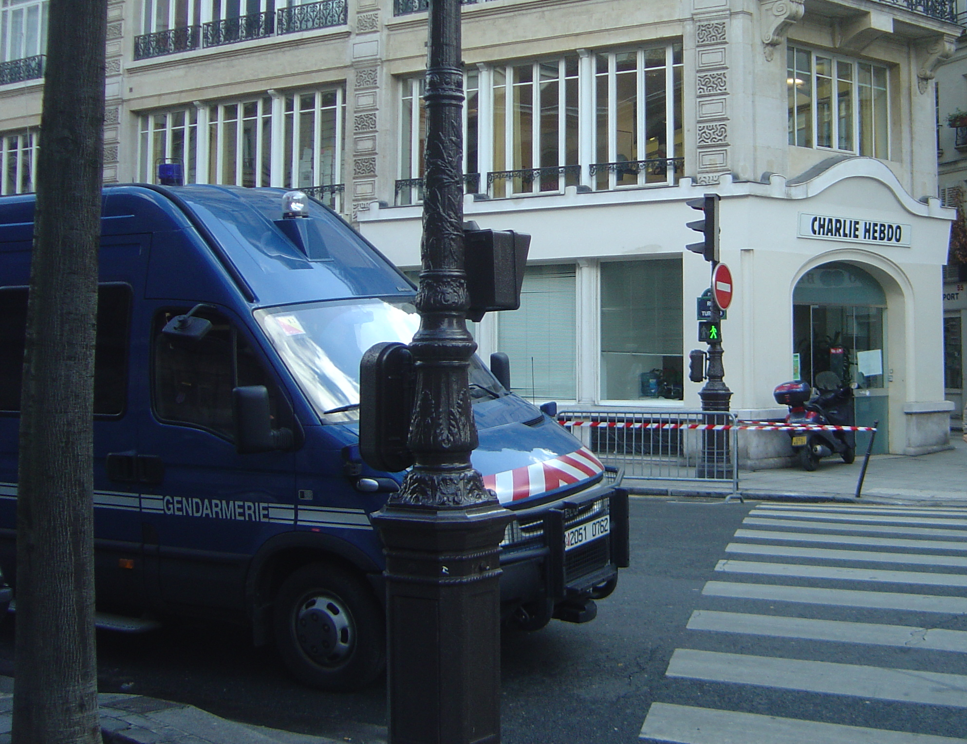 2006-02-08, Paris: The weekly Charlie Hebdo had published copies of the Jyllands-Posten Muhammad cartoons, so mobile gendarmes were position to prevent possible protests.